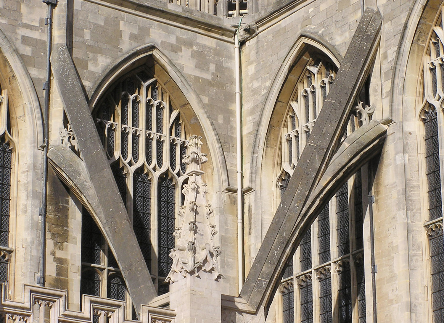 Two flying buttresses at Bath Abbey, Bath, England Taken by Adrian Pingstone in March 2005, and released to the public domain.